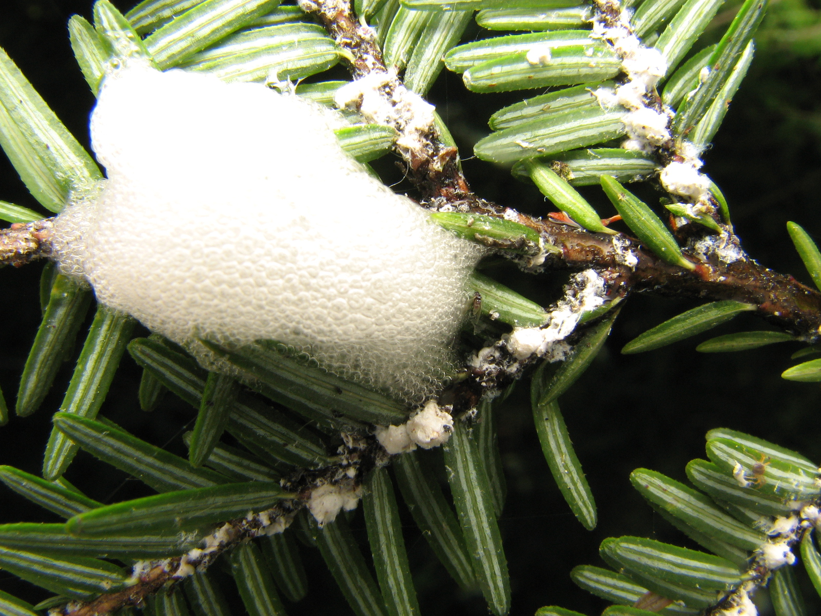 Aphrophora inside its spittle on a hemlock infested by Adelges tsuga. Bays Mountain Park, Sullivan County, Tennessee, USA.